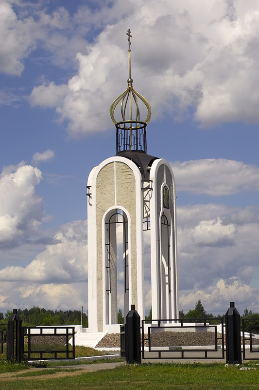 Myasnoy bor memorial, near Novgorod, Russia